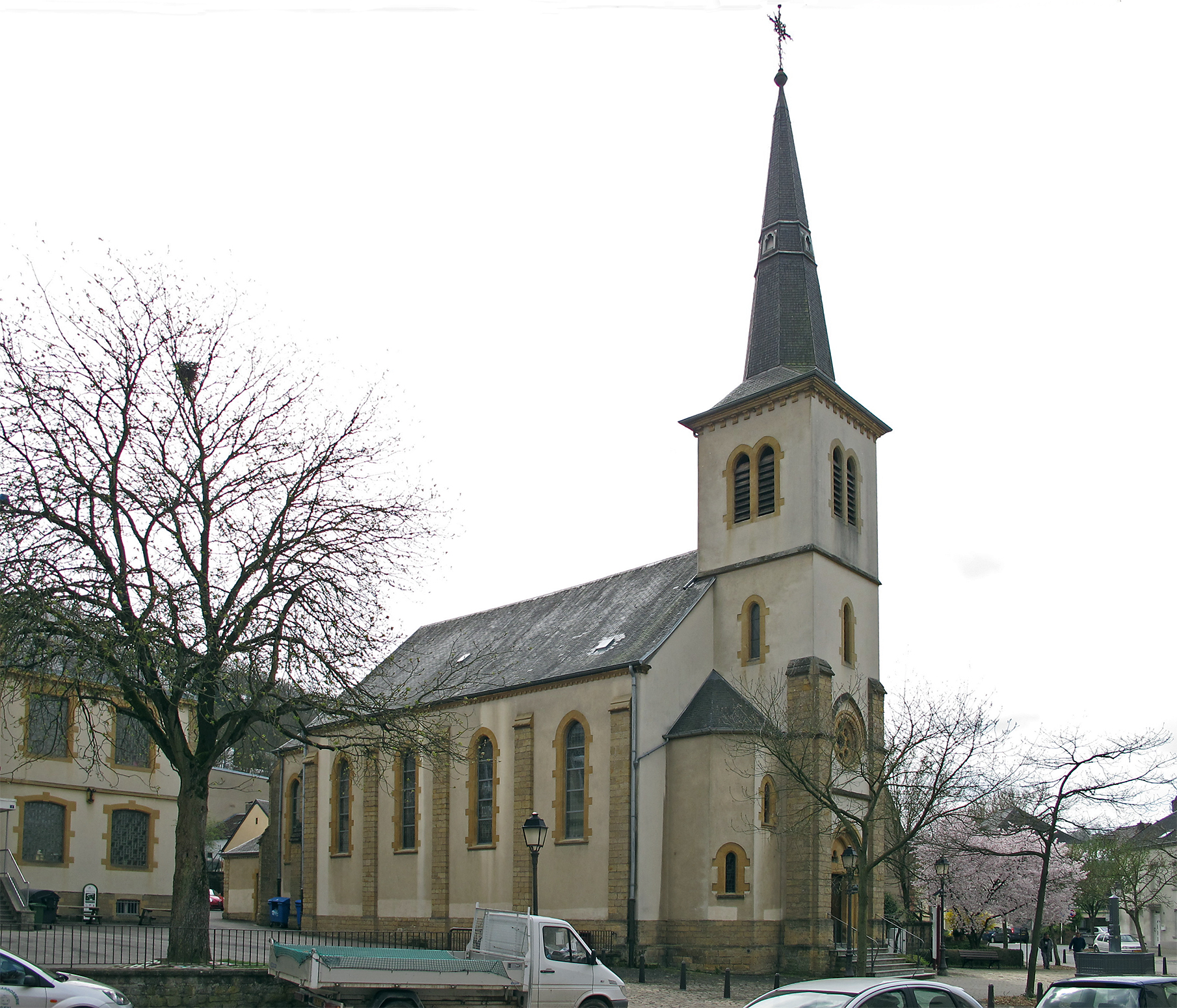 Church of Dommeldange, Luxembourg-City